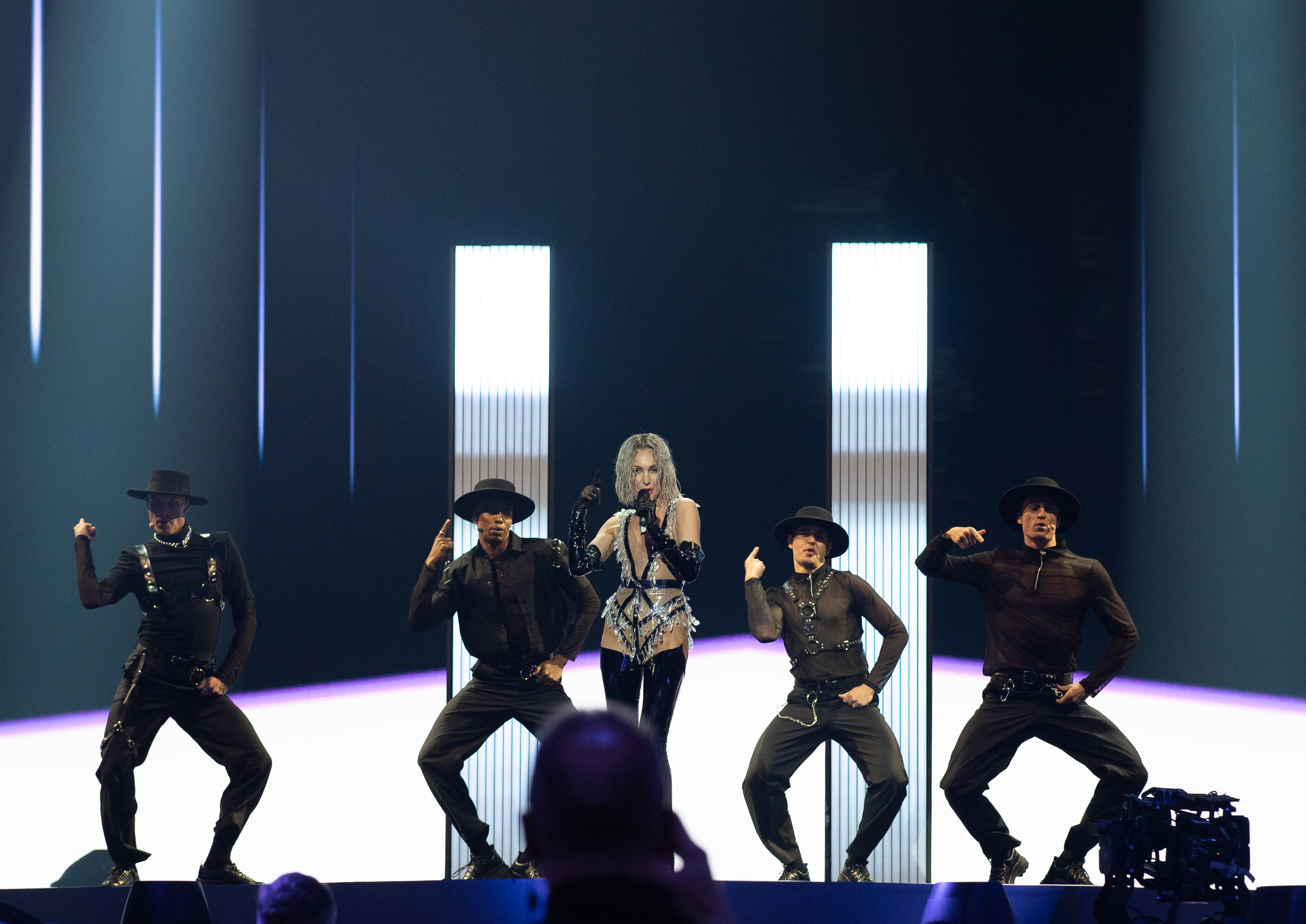 Tamta at the Eurovision Song Contest 2019 in Tel Aviv.